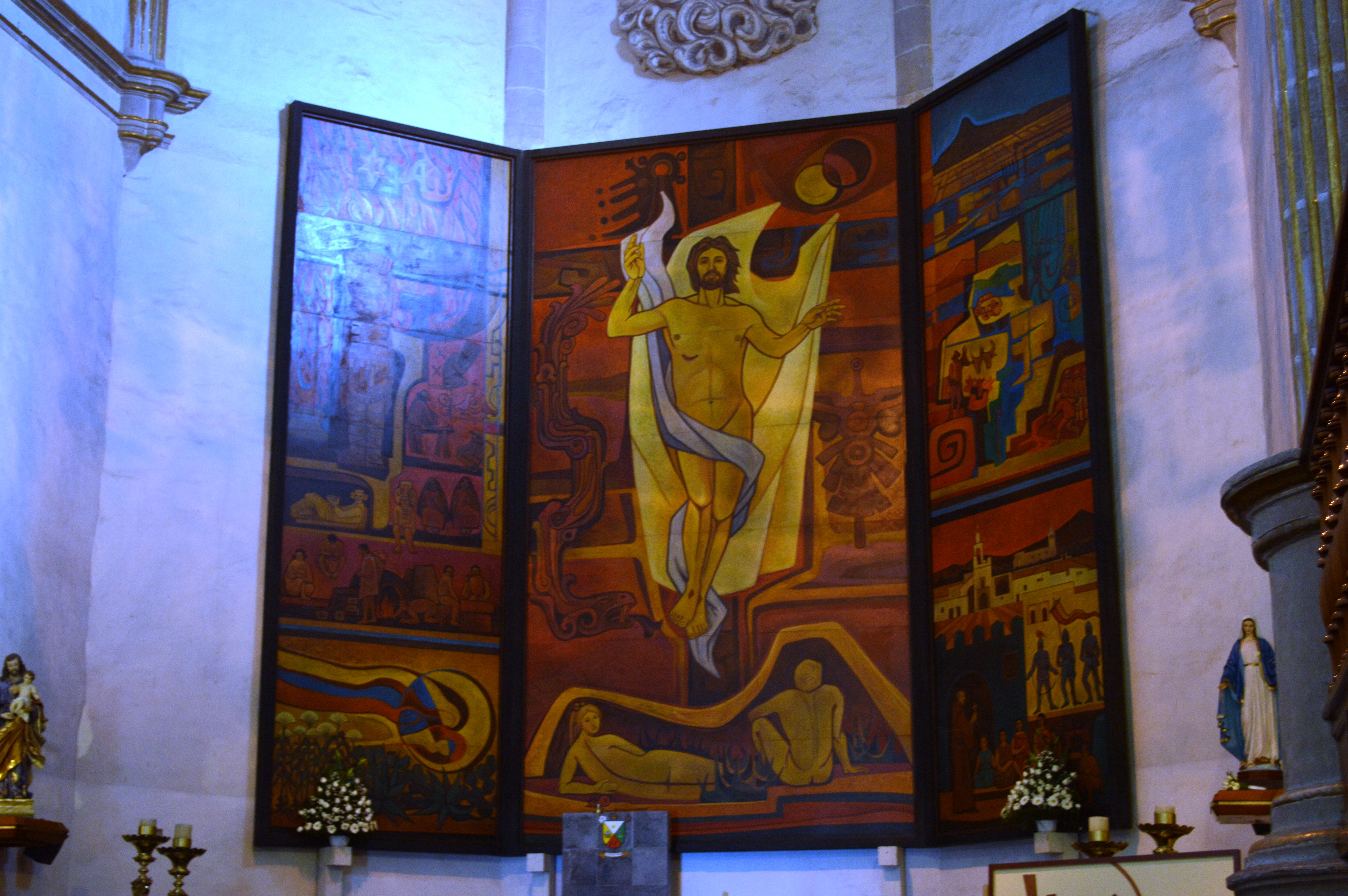 Main altar at the cathedral of Tula de Allende, Hidalgo, Mexico